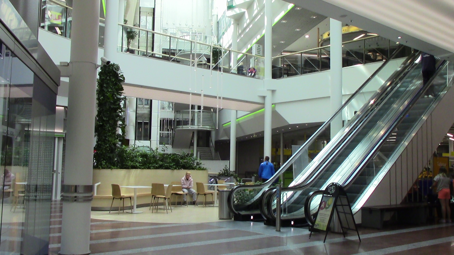 The main square of Plaza shopping center in Salo, Finland.